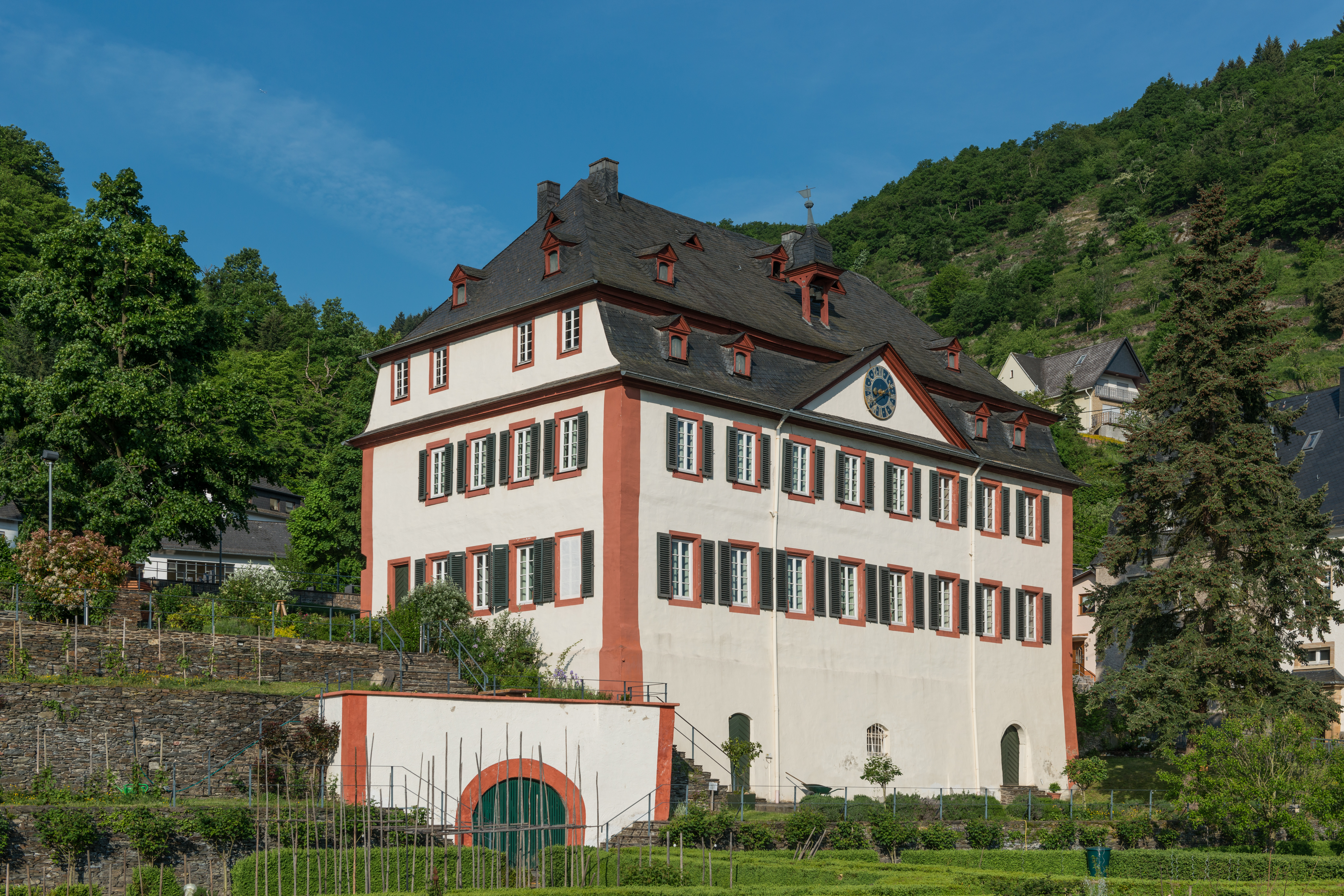 An east view of the Propstei in Hirzenach